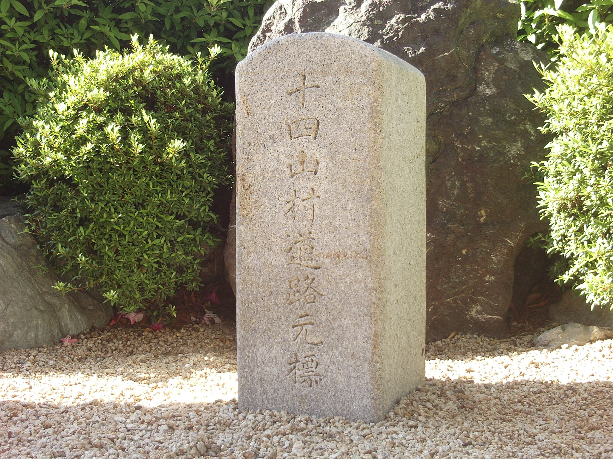 Kilometre zero of Jushiyama village. (Jushiyama village, Ama-gun, Aichi.)